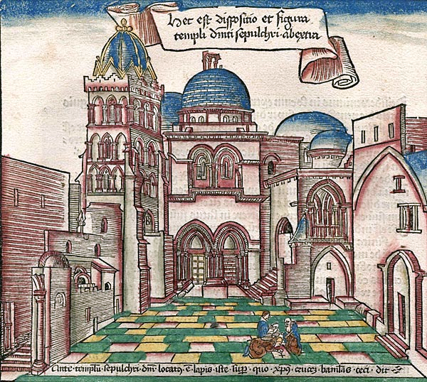 colored illustration of the Church of the Holy Sepulcher from: Bernhard von Breydenbach, sanctae peregrinationes, Mainz: Erhard Reuwich 11. February 1486